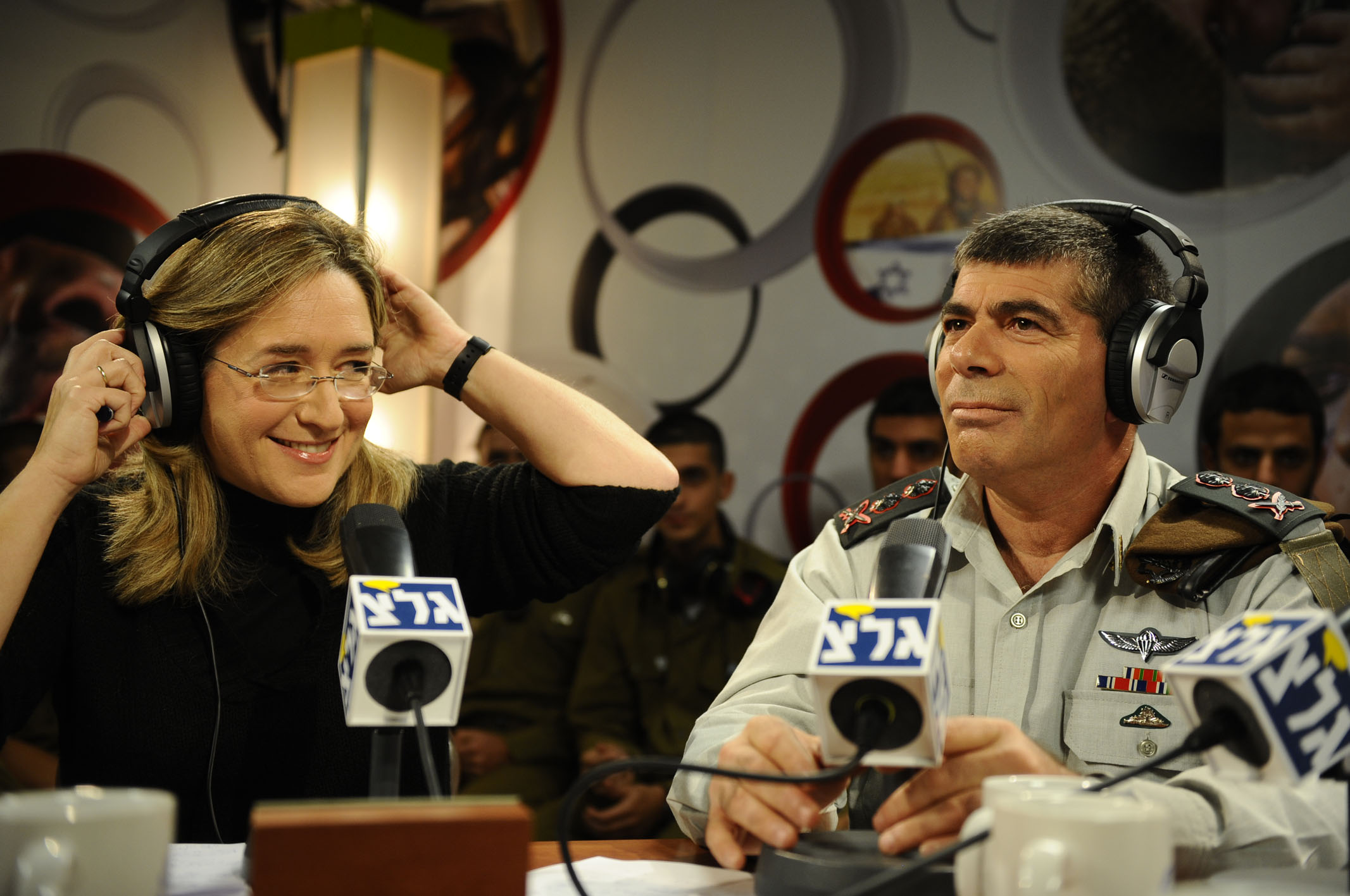 December 14, 2010. The Chief of the General Staff, Lt. Gen. Gabi Ashkenazi, launching the 2010 Shirutrom telethon, an annual day of fundraising on the Army Radio for the Association for the Wellbeing of Israel's Soldiers (AWIS). The theme this year was saluting the security forces, such as fire fighters, policemen, prison guards, and IDF soldiers. For more details see the IDF website. הרמטכ"ל, רב אלוף גבי אשכנזי, פתח הבוקר (ג') את משדר השירותרום שעמד השנה בסימן הצדעה למערך האש.